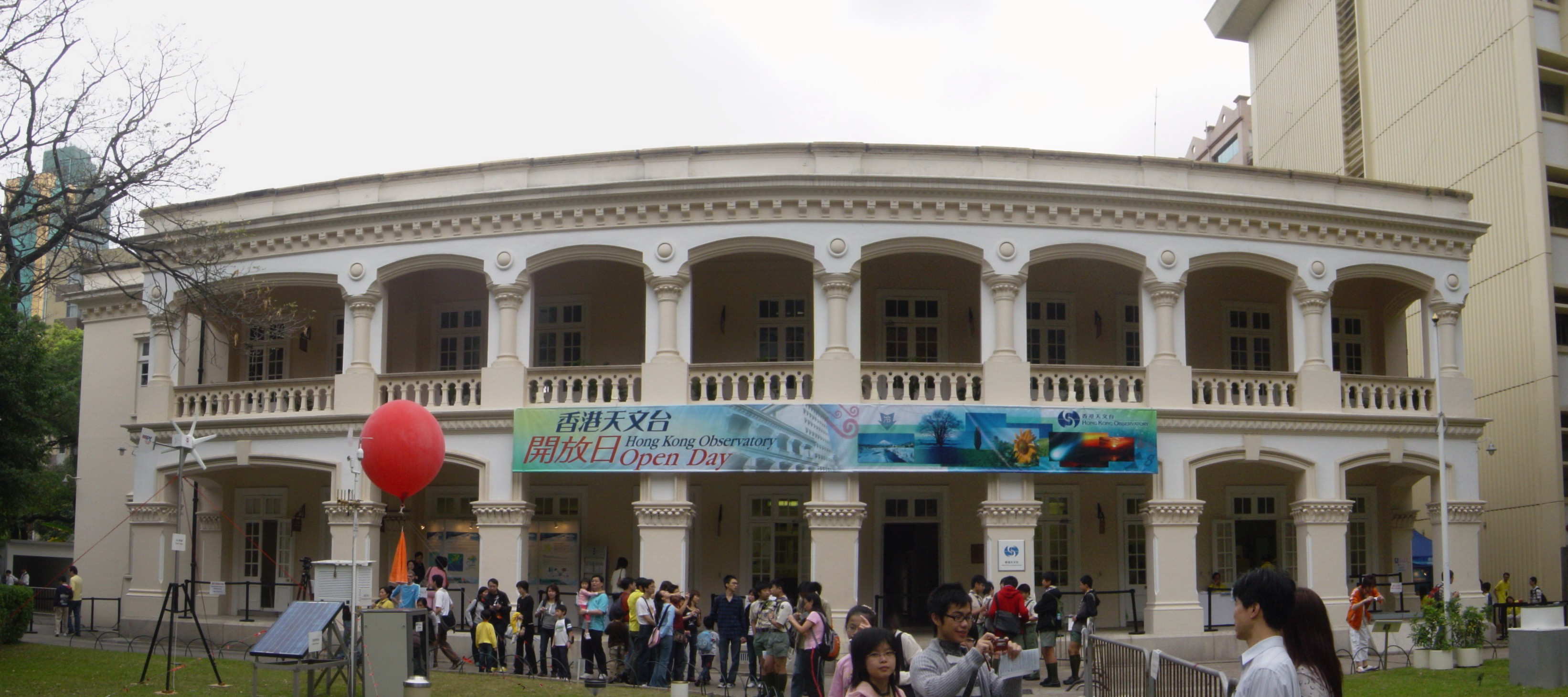 Open Day 2007 of The Hong Kong Observatory Headquarters.